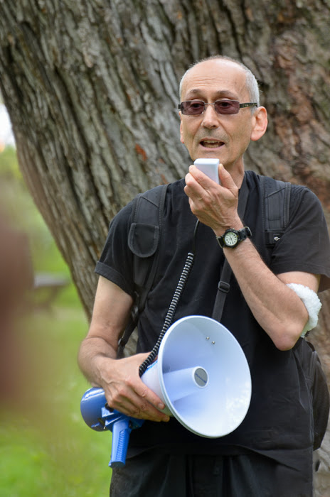 Photo of Stevan Harnad by Guillaum Gibault taken at the Marche pour la ferneture des abattoirs, Montreal, June 14 2014